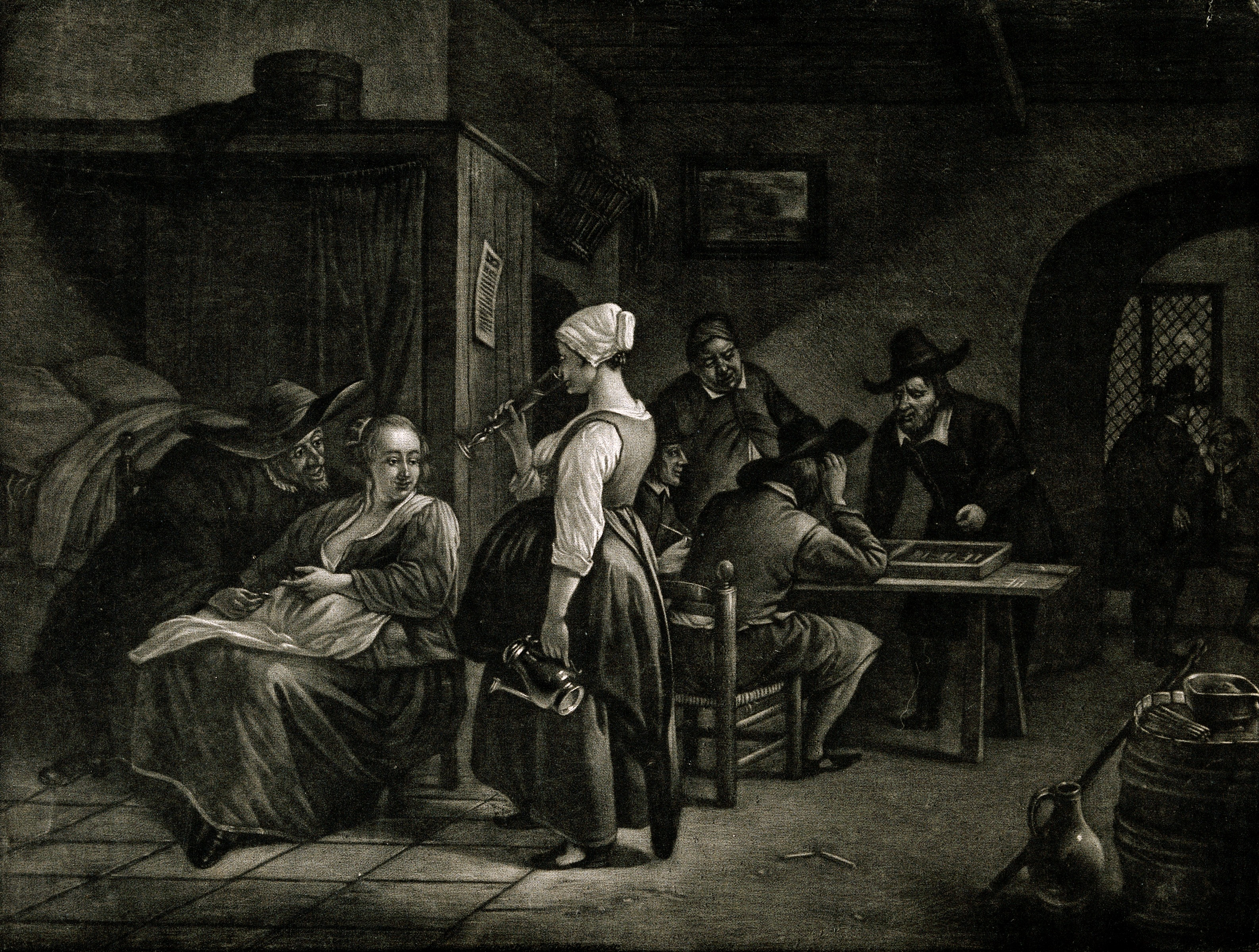 A dingy tavern with backgammon players and an amorous couple observing a pregnant woman as she drinks. Mezzotint by J. Stolker after J. Steen. Iconographic Collections Keywords: Jan Stolker; Jan Havicksz Steen